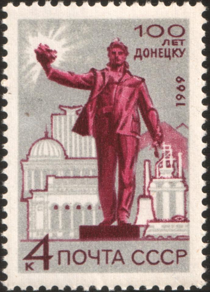 USSR stampː Miners' Statue, Donetsk. Seriesː Centenary of Donetsk (the Donetsk coal basin)